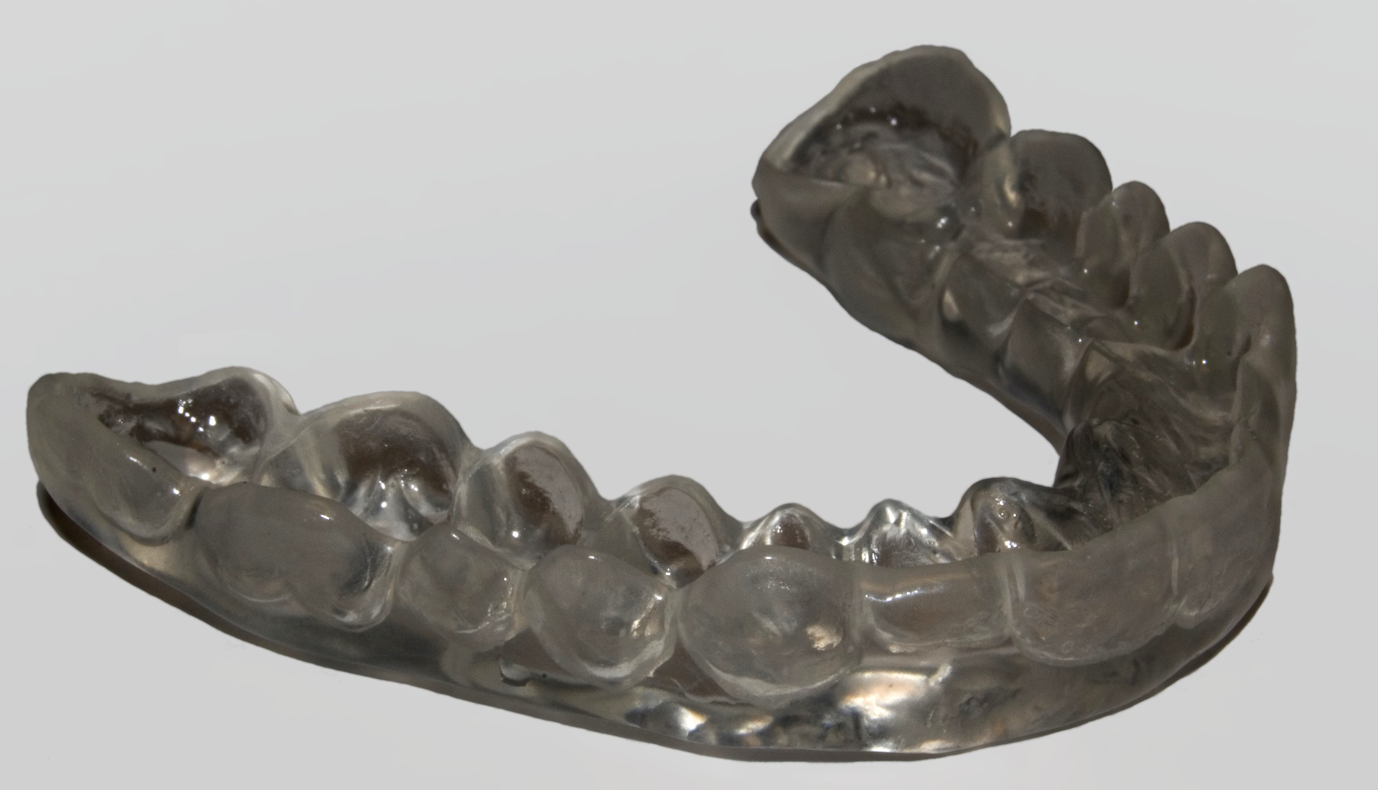 A custom-made dental guard, designed to the shape of an individual's upper teeth